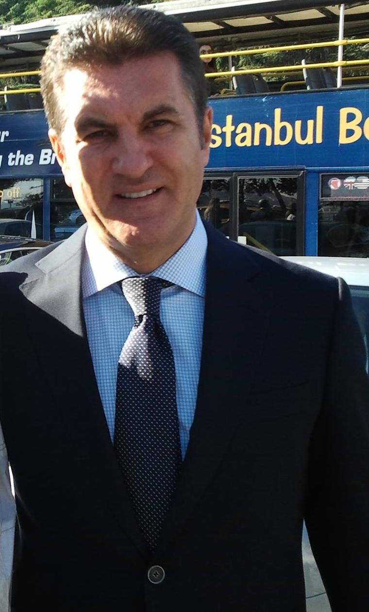 Mustafa Sarıgül, is the mayor of the Şişli district in Istanbul.